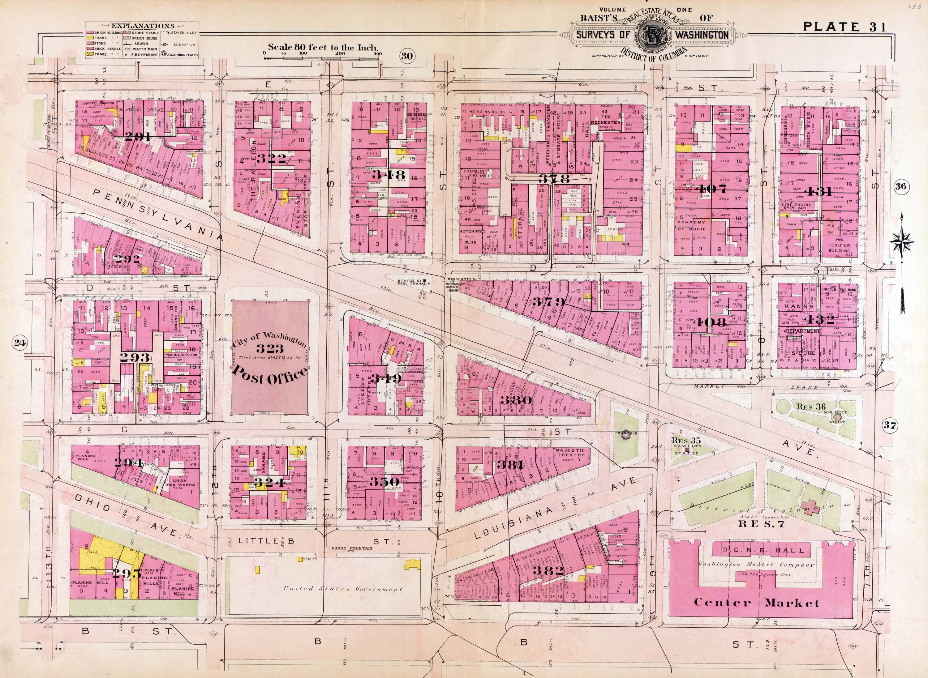 1909 map of Downtown Washington, D.C. Borders of the map include (all roads on the map are located in Northwest): E Street on the north, 13th Street on the west, B Street on the south, and 7th Street on the east. Pennsylvania Avenue is the road running diagonally across the entire map. Except for the Old Post Office Pavilion (light pink square), all of the buildings located south of Pennsylvania Avenue were demolished in the 1930s. That area is now Federal Triangle and home to various federal government buildings. (example: the Center Market site is now home to the National Archives building) The contemporary layout of the city doesn't include the portions of Louisiana Avenue, C, D, 11th, and 13th Streets that were south of Pennsylvania Avenue. Little B Street and Ohio Avenue no longer exists. B Street is now Constitution Avenue. The contemporay layout north of Pennsylvania Avenue doesn't include 8th Street between D and Pennsylvania; Market Space no longer exists. That area is now home to the United States Navy Memorial and entrances to a Washington Metro station. D Street between 9th and 10th is now covered by the J. Edgar Hoover Building.